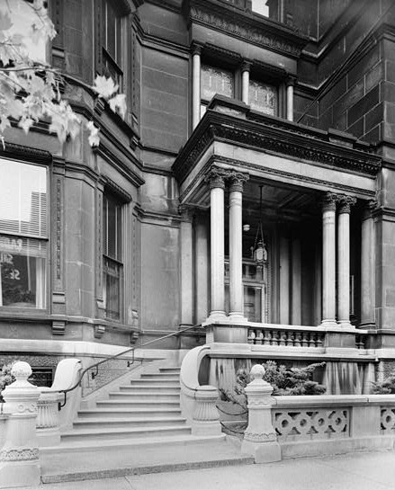 Samuel M Nickerson House, 40 East Erie Street, Chicago (Cook County, Illinois) (cropped) This file comes from the Historic American Buildings Survey (HABS), Historic American Engineering Record (HAER) or Historic American Landscapes Survey (HALS). These are programs of the National Park Service established for the purpose of documenting historic places. Records consist of measured drawings, archival photographs, and written reports. This tag does not indicate the copyright status of the attached work. A normal copyright tag is still required. See Commons:Licensing for more information. English | +/− This work is in the public domain in the United States because it is a work prepared by an officer or employee of the United States Government as part of that person’s official duties under the terms of Title 17, Chapter 1, Section 105 of the US Code. See Copyright. Note: This only applies to original works of the Federal Government and not to the work of any individual U.S. state, territory, commonwealth, county, municipality, or any other subdivision. This template also does not apply to postage stamp designs published by the United States Postal Service since 1978. (See § 313.6(C)(1) of Compendium of U.S. Copyright Office Practices). It also does not apply to certain US coins; see The US Mint Terms of Use. This file has been identified as being free of known restrictions under copyright law, including all related and neighboring rights. Object location41° 53′ 38″ N, 87° 37′ 36″ W